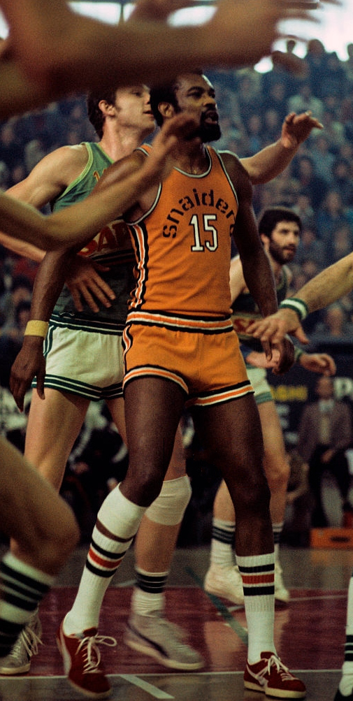 The American basketball player James Ronald (called Jim) McDaniels playing in defence during a game with his team, the Snaidero Udine. Italy, 1975.